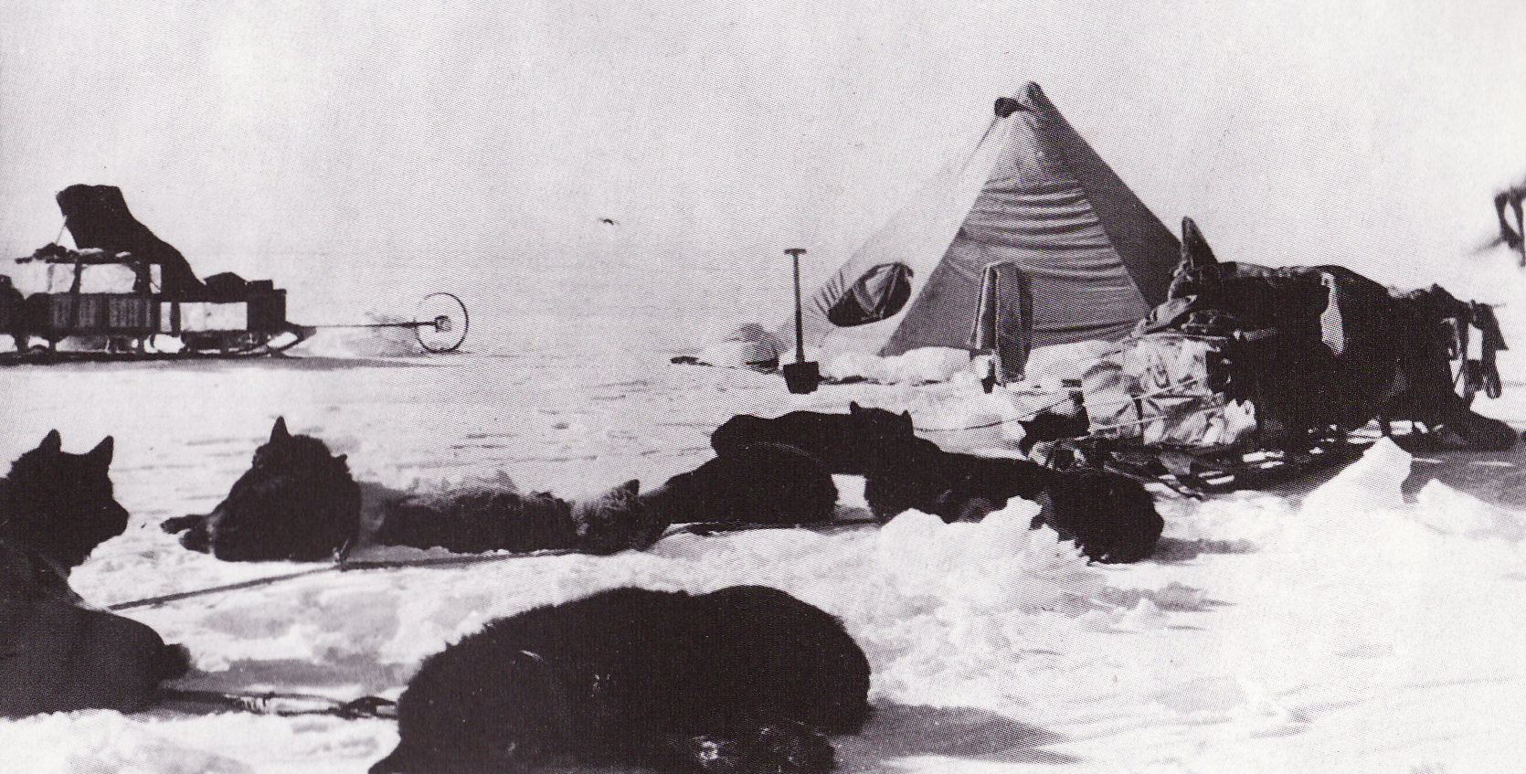 A temporary camp of the Terra Nova Expedition with supplies, sled dogs and tent.